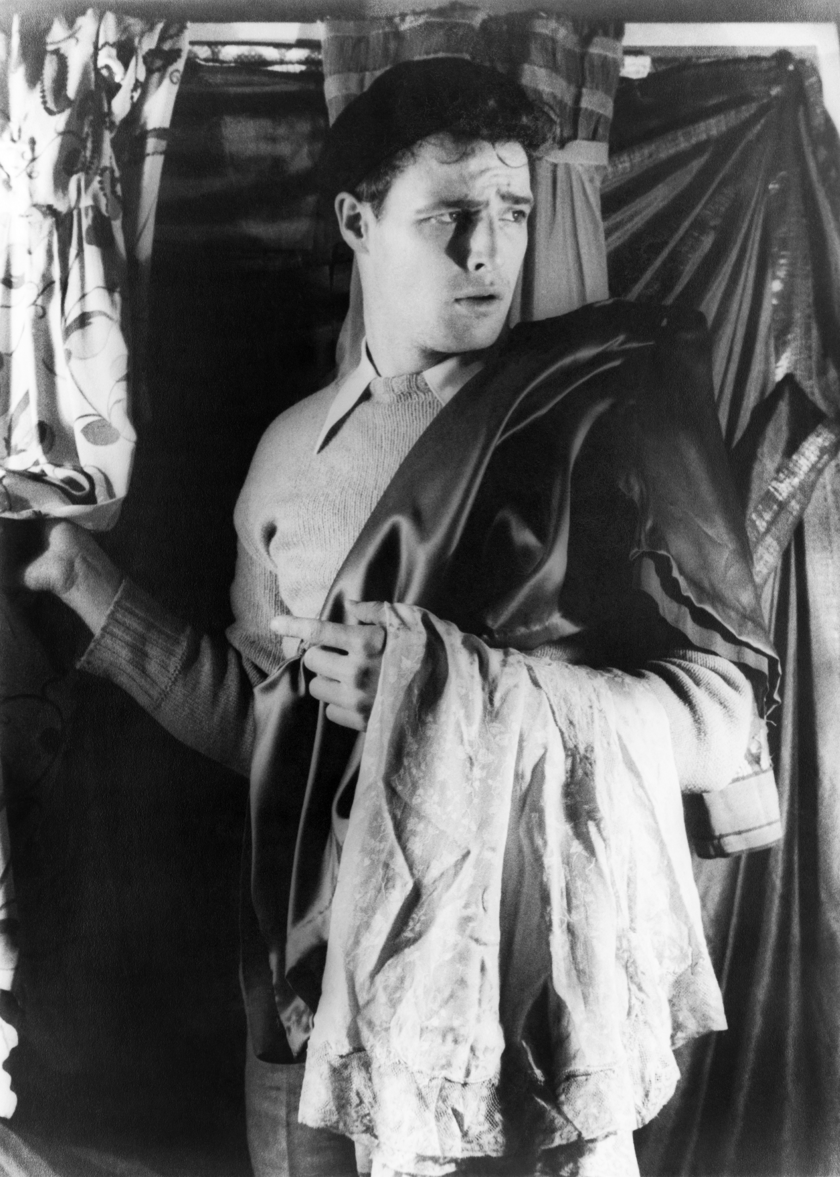 Portrait of Marlon Brando, "Streetcar Named Desire" 1 photographic print : gelatin silver.Portrait of Marlon Brando (1948 December 27)